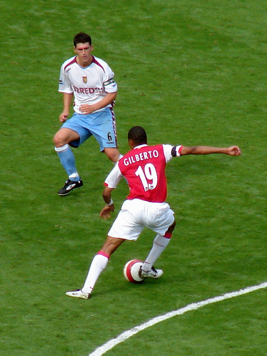 Gilberto faces up to Aston Villa's Gareth Barry in the opening competetive match of the Emirates Stadium. Gilberto scored the goal that earned Arsenal a draw.